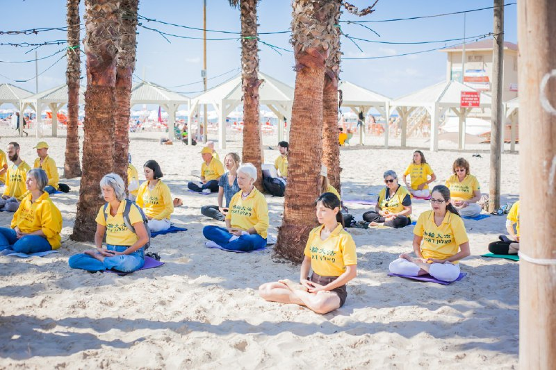 Falun Dafa practitioners sit in meditation on the beach in Tel Aviv, Israel